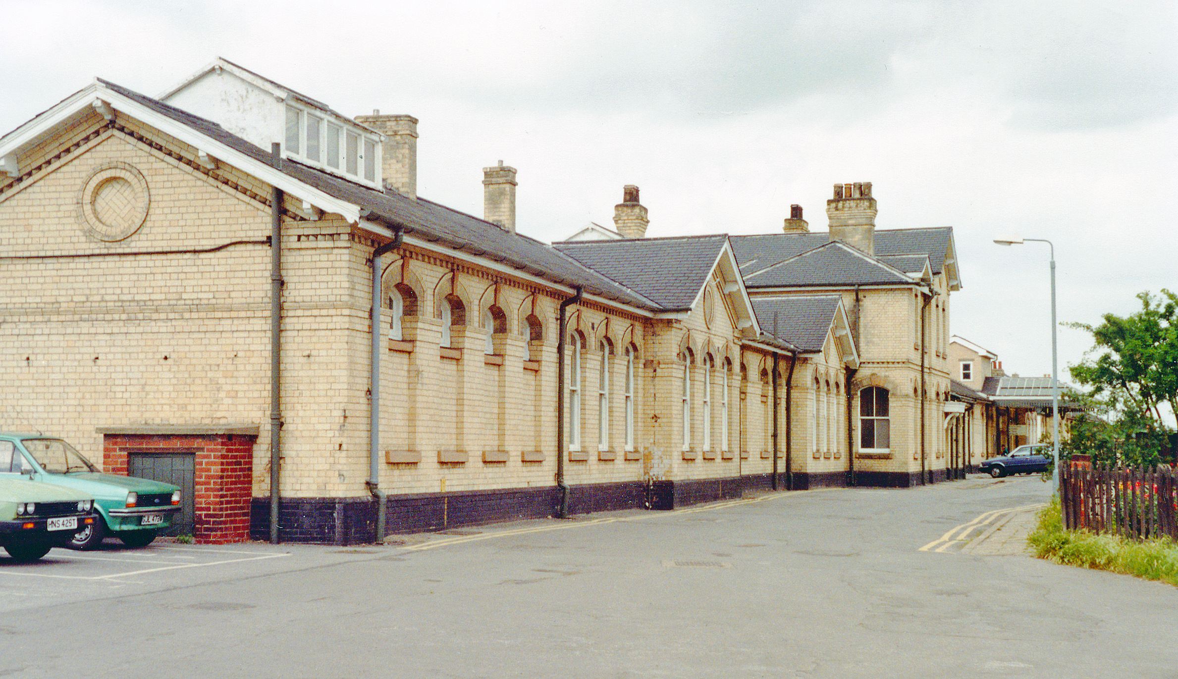 Retford Station, exterior Up side 1992. This is the original station on the ex-GNR East Coast Main Line, (Edinburgh) - Doncaster - London King's Cross.